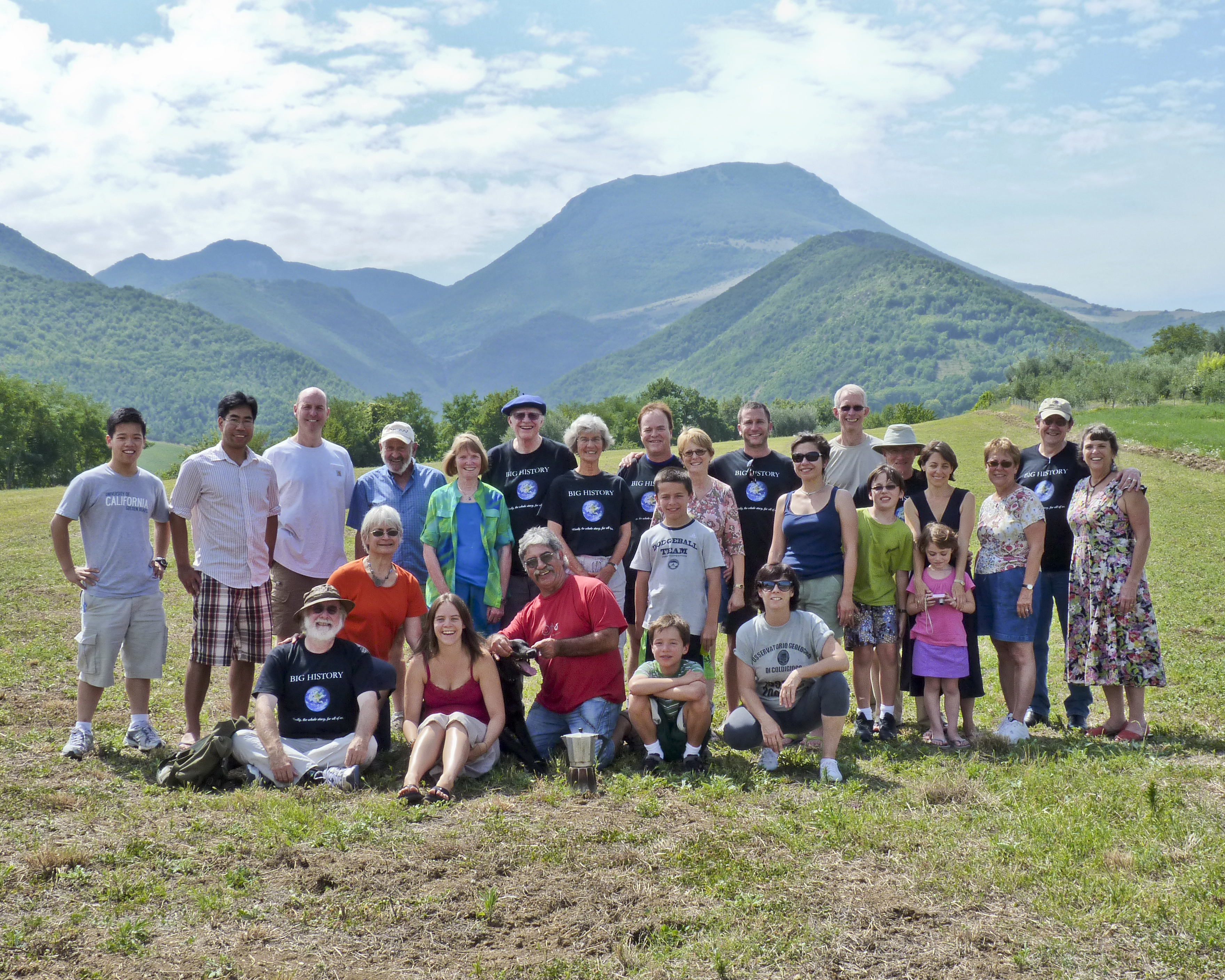 Big Historians from around the world gathered at the Geological Observatory of Coldigioco in Italy forming the International Big History Association on August 20th, 2010. The Big Historians who met at Coldigioco were David Christian of Macquarie University in Sydney (Australia), Fred Spier of the University of Amsterdam (Netherlands), Walter Alvarez of the University of California at Berkeley (USA), Craig Benjamin of Grand Valley State University in Michigan (USA), Cynthia Brown of Dominican University in California (USA), Lowell Gustafson of Villanova University in Pennsylvania (USA), and Barry Rodrigue of the University of Southern Maine (USA).